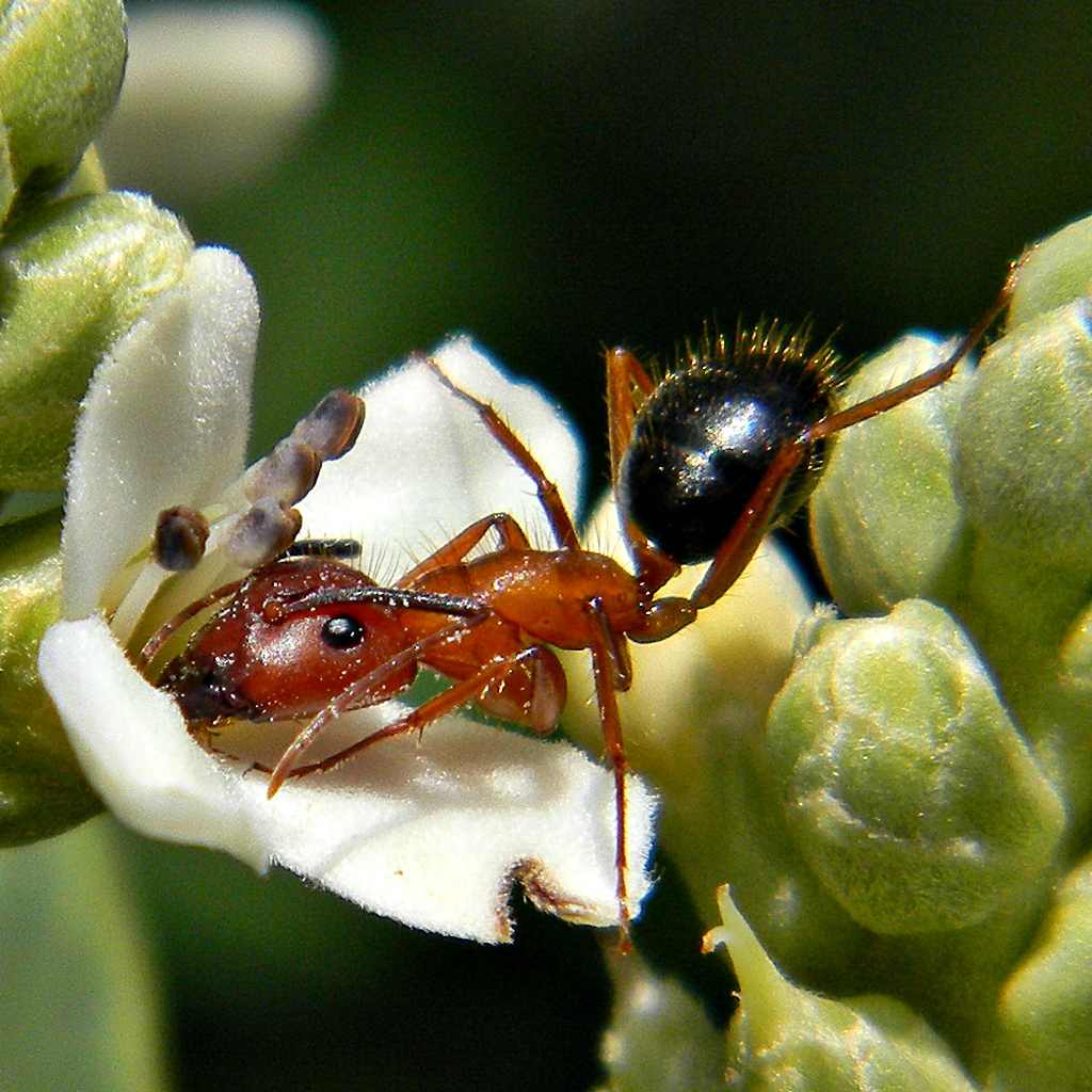 Camponotus floridanus does a balancing act to collect her sweet reward for helping to pollinate a black mangrove blossom.